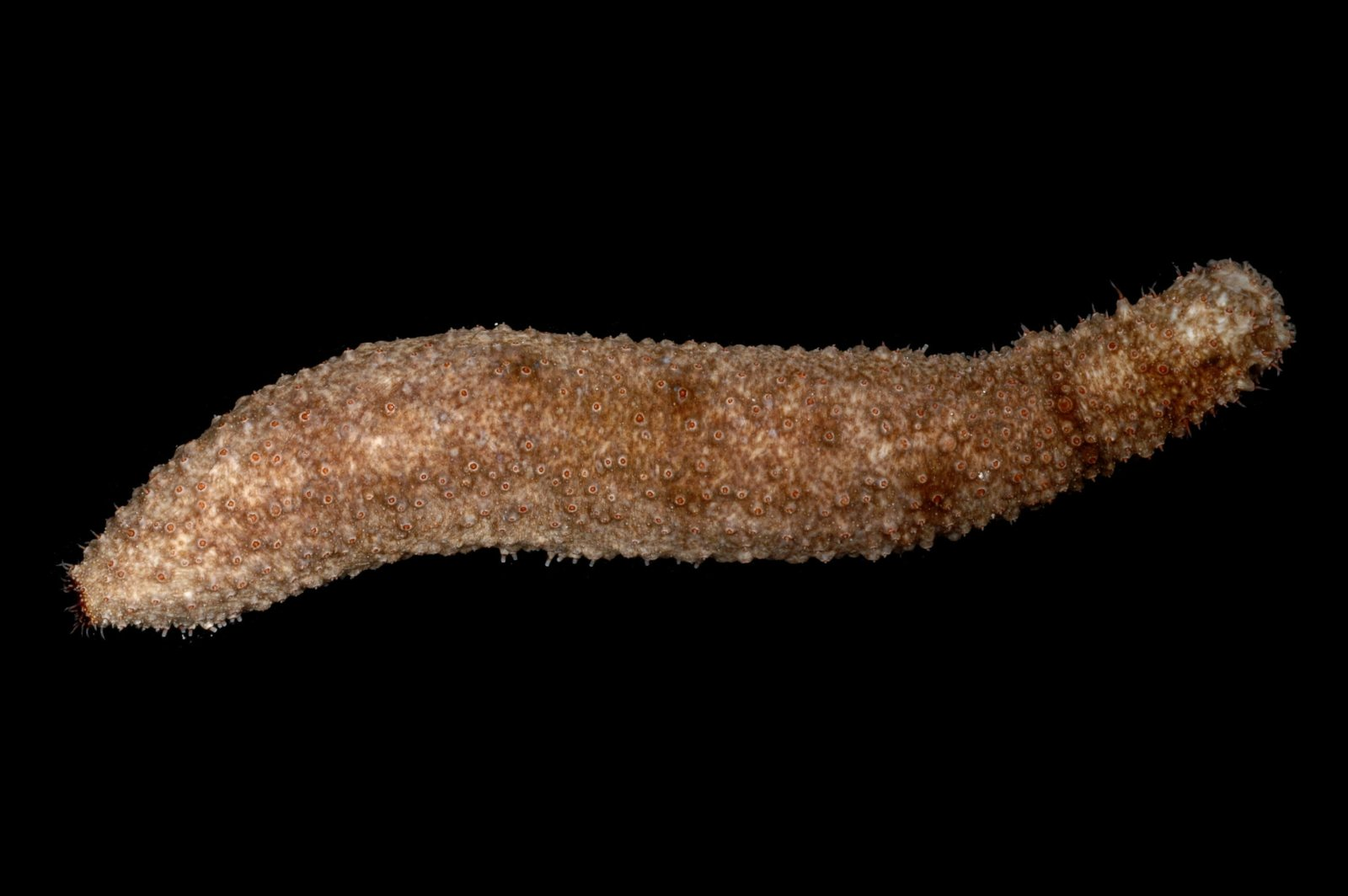 Holothuria fuscocinerea. Kosrae, Federated States of Micronesia.